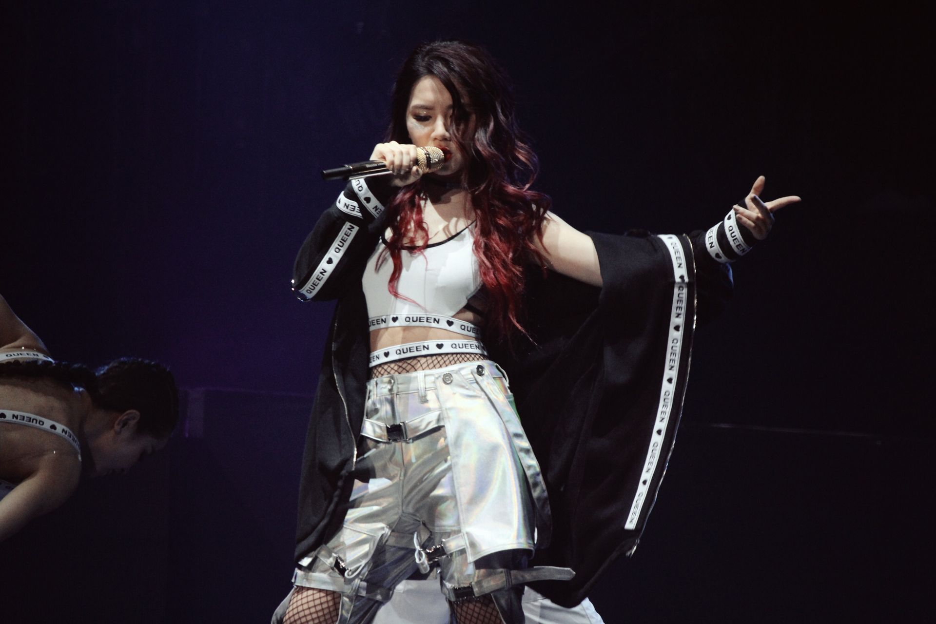 中文（香港）: 2017年4月1日廣州Queen of Hearts 1